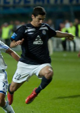 Henrikh Mkhitaryan, forward for FC Shakhtar Donetsk